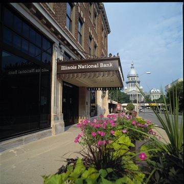 Illinois National Bank, 322 E. Capitol Ave., Springfield, IL with Illinois State Capitol in the background